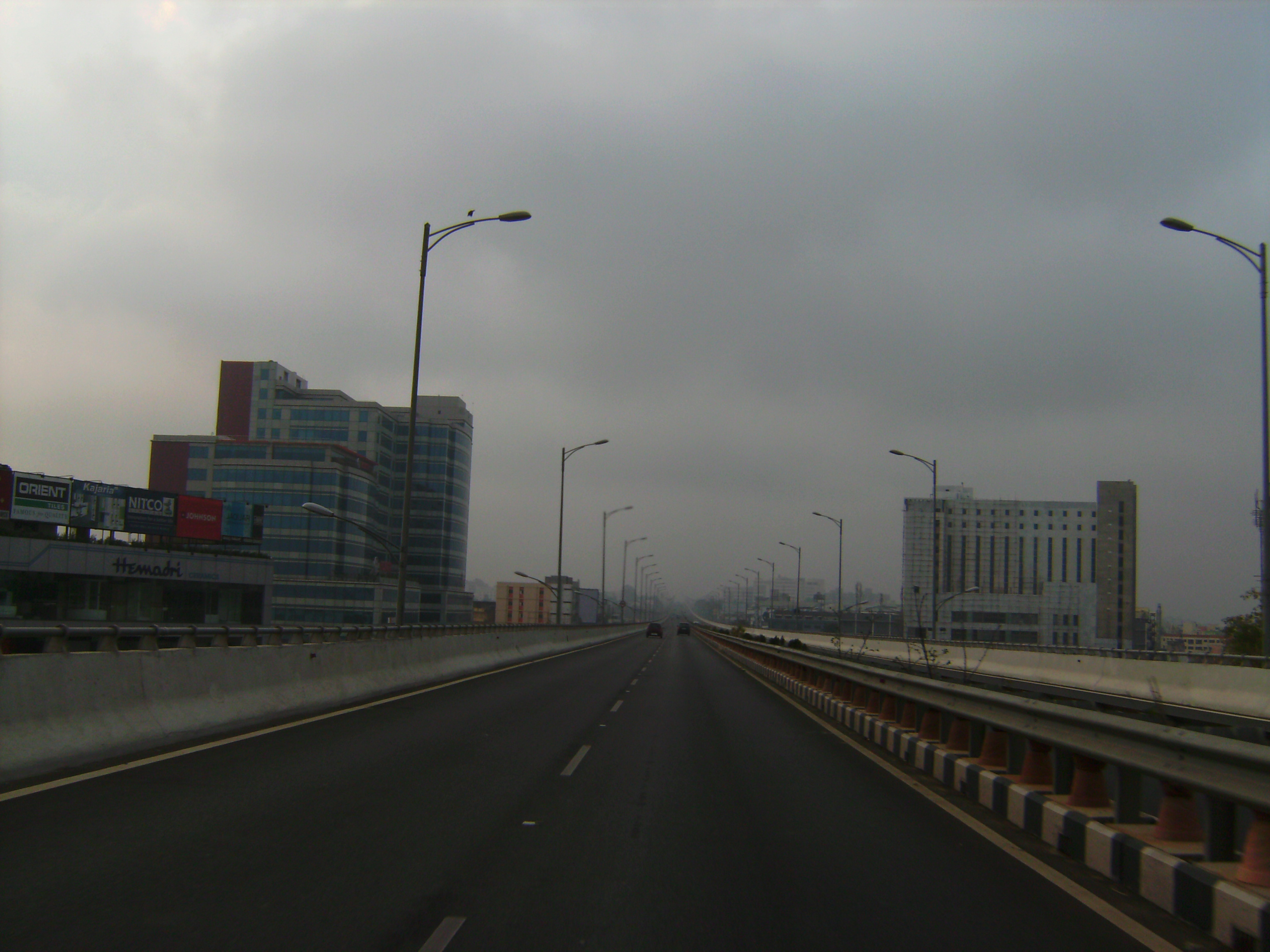 Bosch company seen in the left just after entering the Eway from Madiwala side